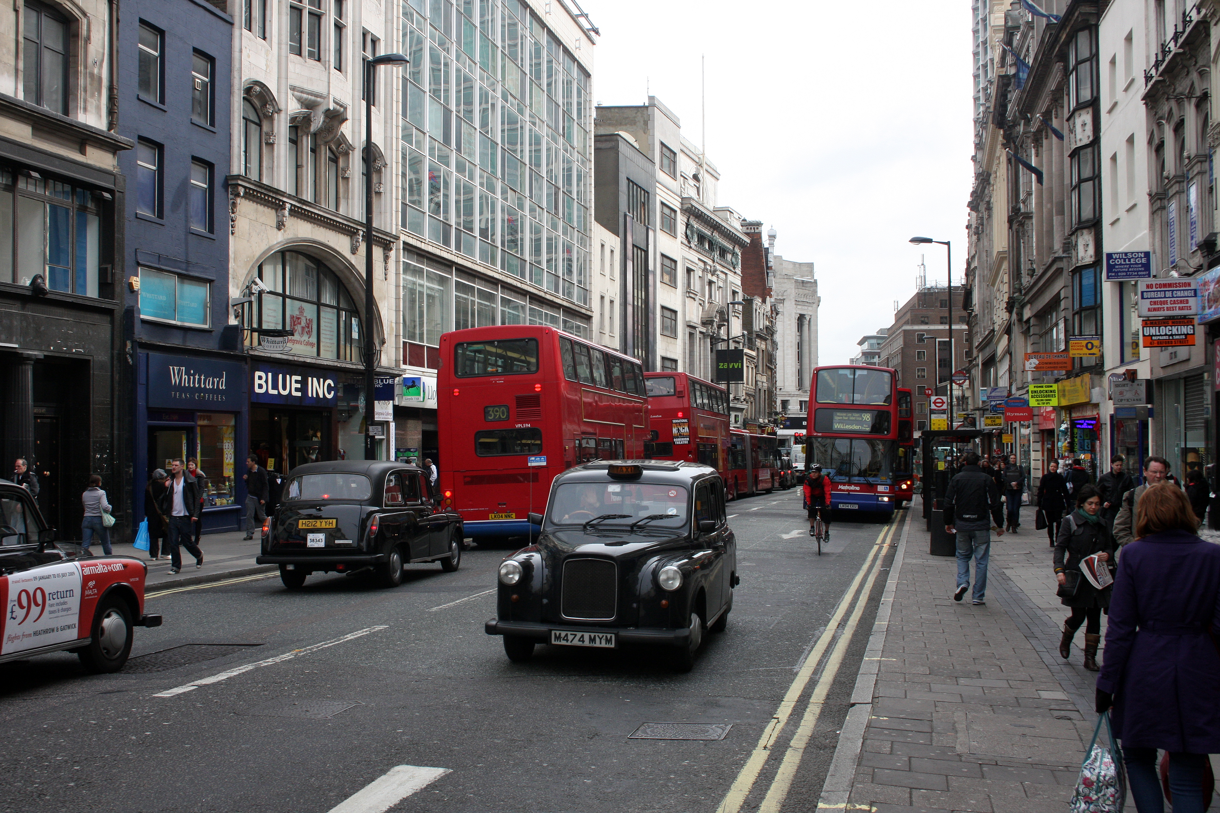 London traffic